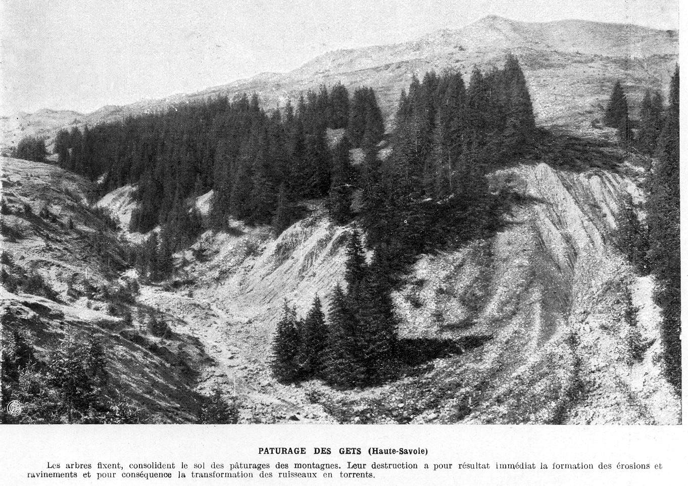 picture of Les Gets (France), in an old book about importance of trees, made for children in schols, here from the second edition (in 1921), by the french association 'Touring-Club de France". the book is named "Manuel de l'arbre"